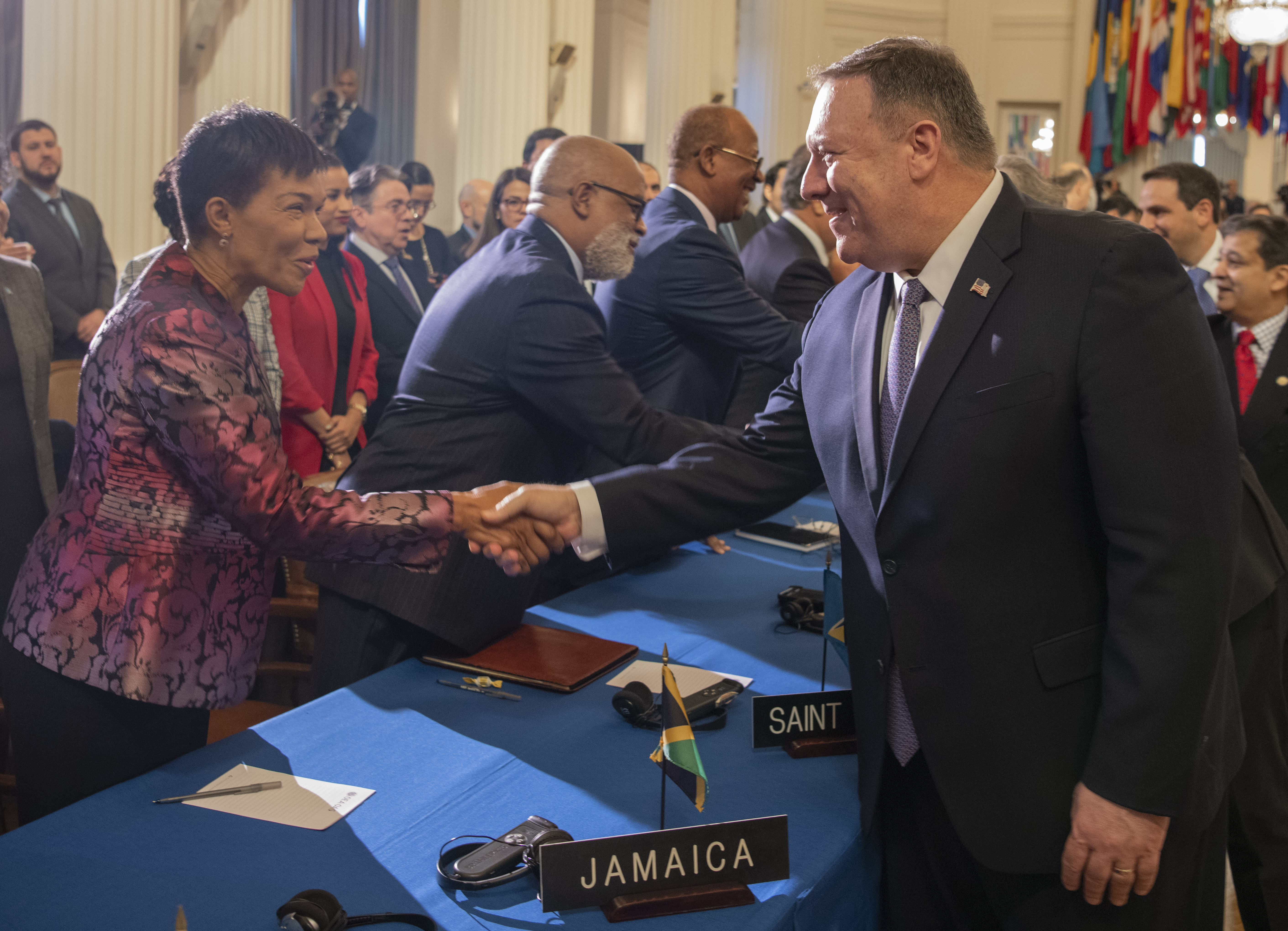 Secretary of State Michael R. Pompeo shakes hands with the Jamaican Ambassador to the Organization of American States, Audrey Marks, at the Organization of American States, in Washington, D.C on January 17, 2020. [State Department photo by Freddie Everett/ Public Domain]